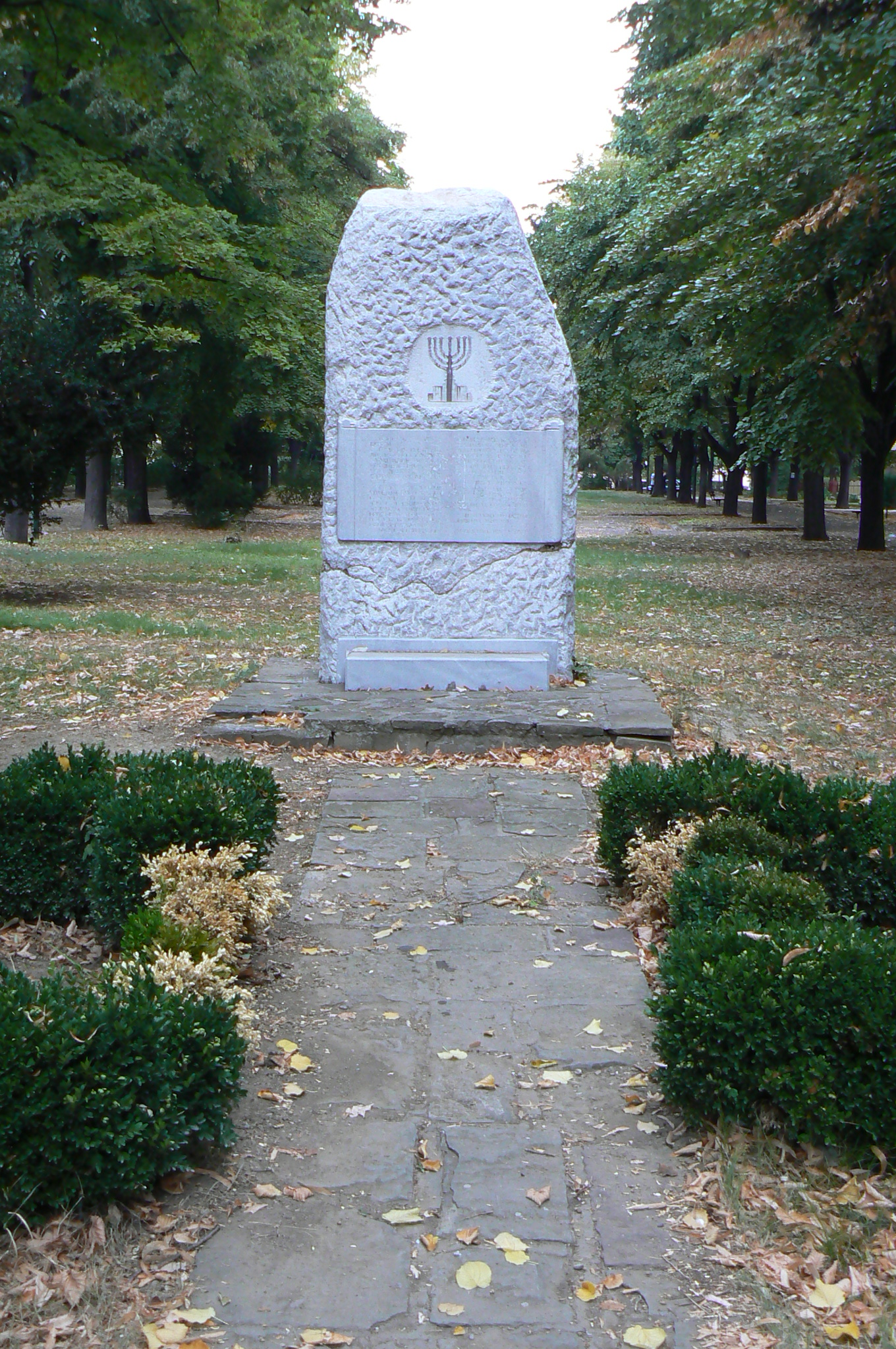 Monument, raised by the Jewish community of town Vidin, Bulgaria